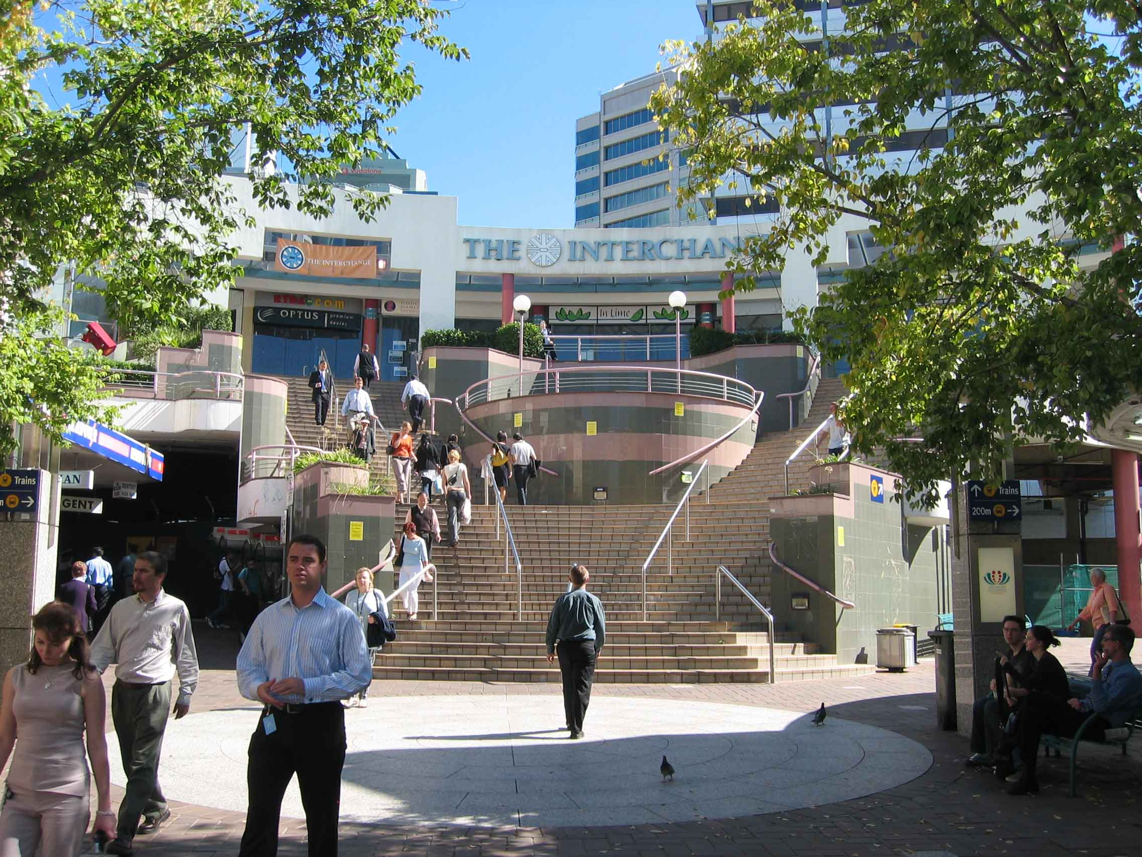 Eastern side of The Interchange in Victoria Avenue, Chatswood. Constructed in the late 1980s, this bus interchange and shopping centre is being removed in 2005 due to the Epping to Chatswood Line. Taken 2005-04-06.